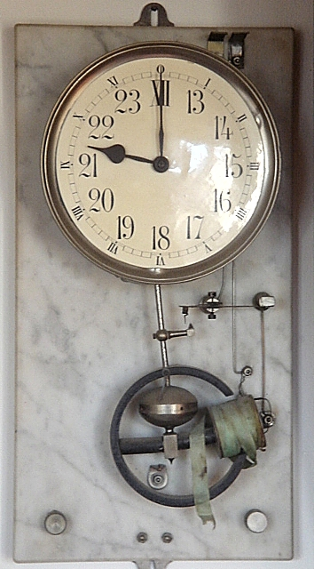 An early French electric clock, powered by a battery. This type is called an electromagnetic clock. It keeps time with a pendulum, but the pendulum receives pushes to keep it swinging by magnetic force from a solenoid electromagnet. (lower right). When the pendulum swings through its bottom position, switch contacts (center) close the circuit and a pulse of current flows through the solenoid from the battery (not shown), giving the pendulum a push.